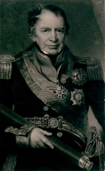 Portait of Admiral Sir Josias Rowley